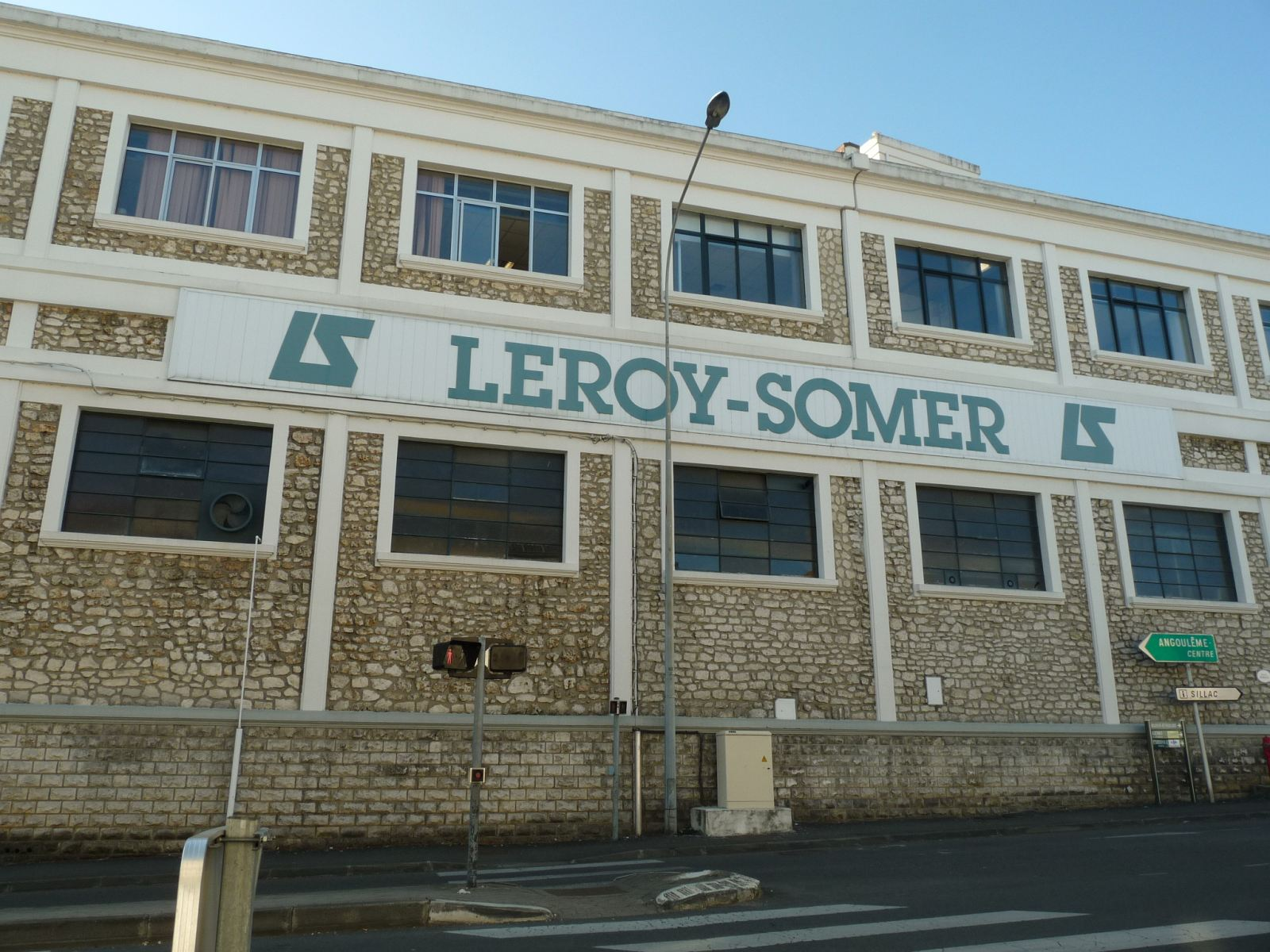 Leroy-Somer motor factories in Angoulême, Charente, SW France